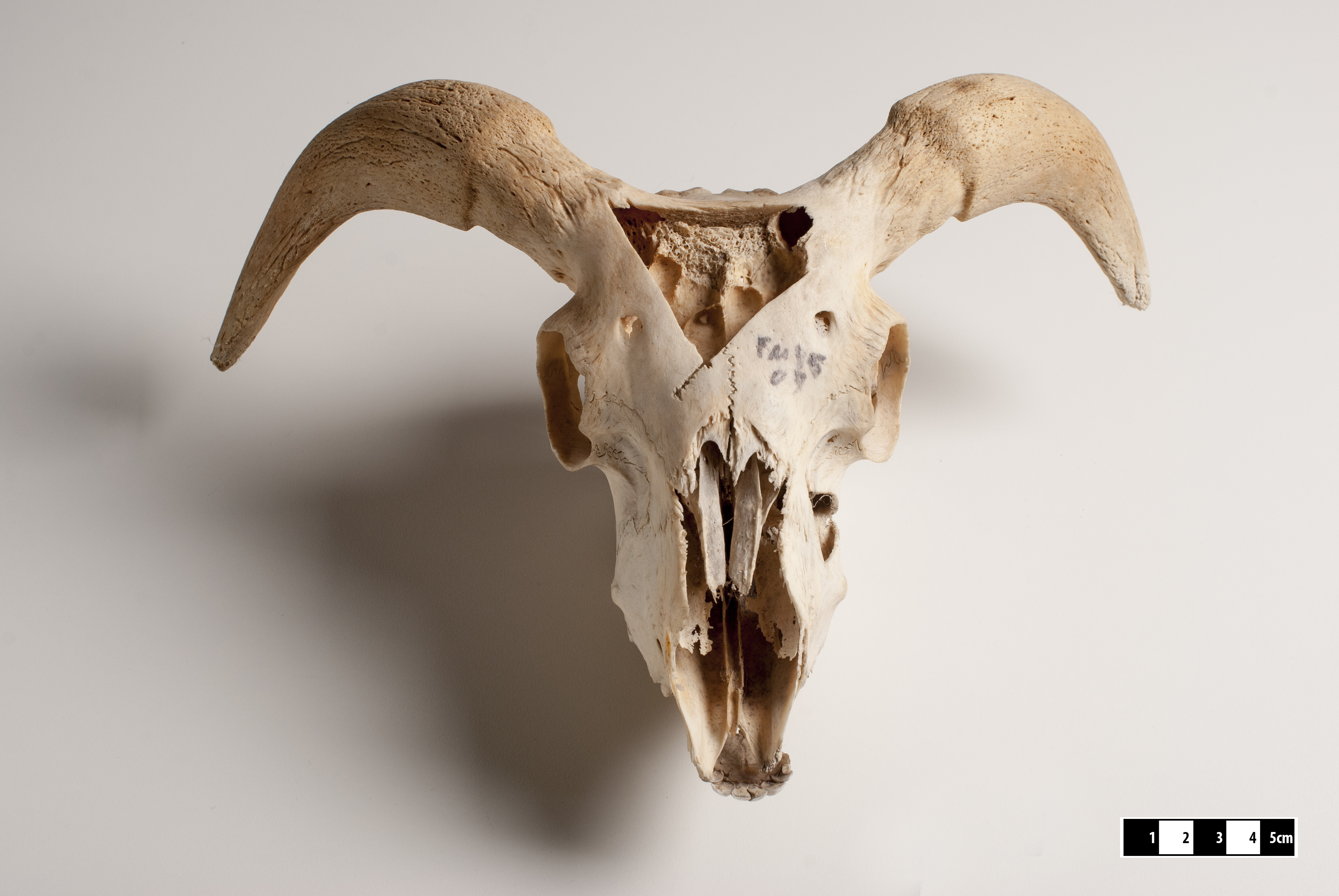 Goat skull. Capra hircus Specimen of goat skull with cut showing the interior of the frontal nasal sinus prepared by the bone maceration technique and on display at the Museum of Veterinary Anatomy, FMVZ USP. This file was published as the result of a partnership between the Museum of Veterinary Anatomy FMVZ USP, the RIDC NeuroMat and the Wikimedia Community User Group Brasil. This GLAM project is reported. Photography: Museum of Veterinary Anatomy FMVZ USP.